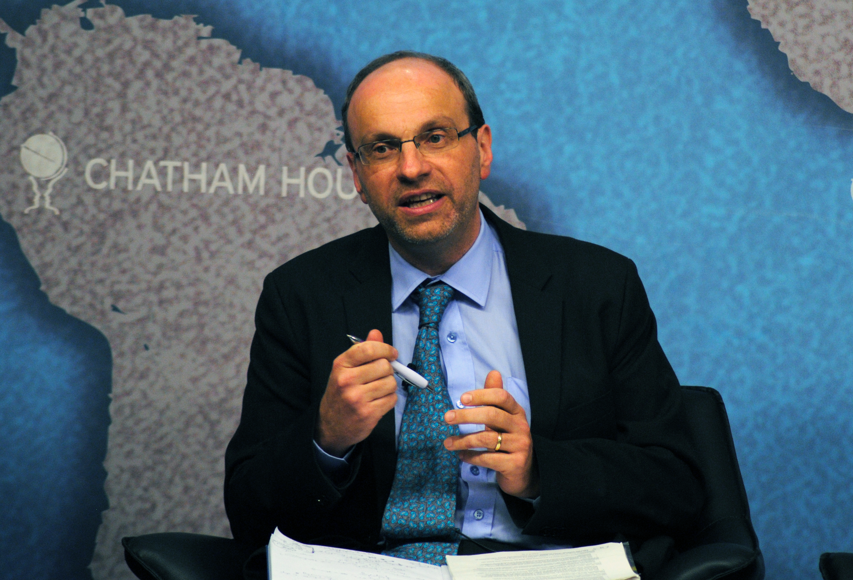 Fragile States, Capital Flight and Tax Havens, 25 September 2013 cht.hm/1aoXl6P